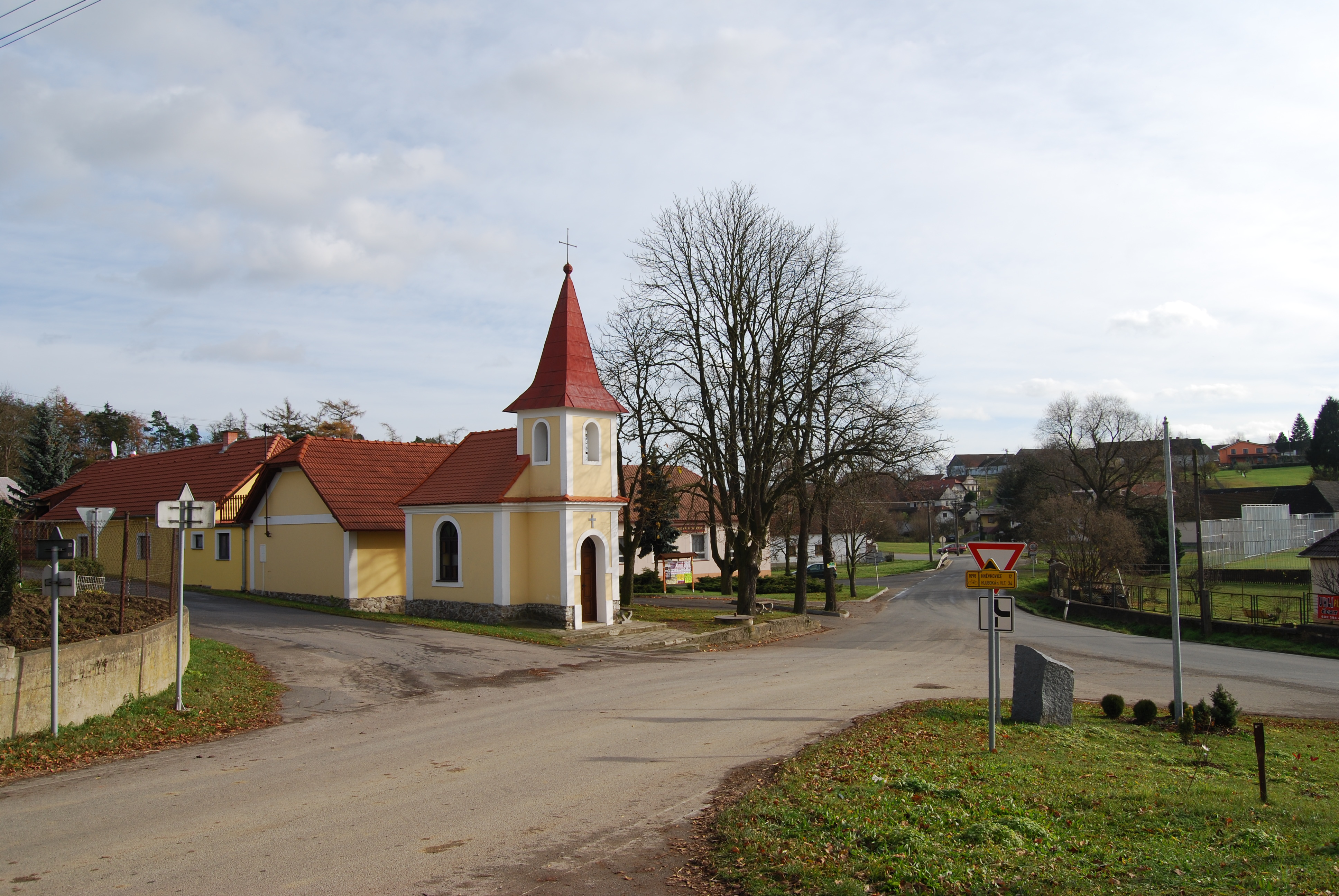 Březnice village in Tábor District, Czech Republic. Chapel